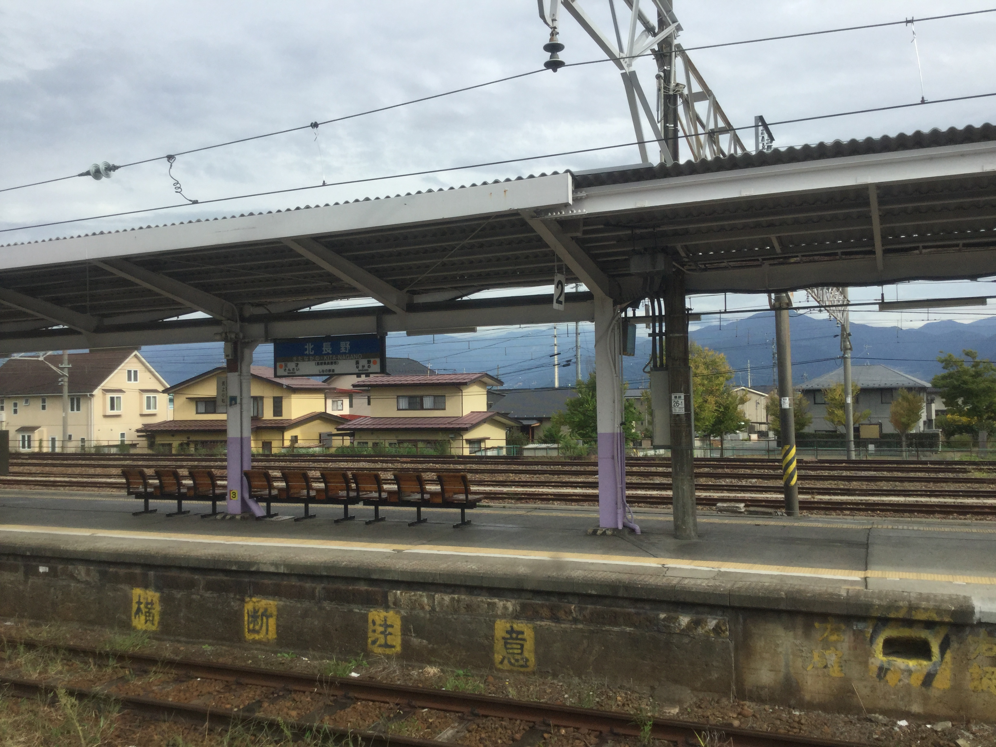 北長野駅のホーム (Kita-Nagano Station platform)